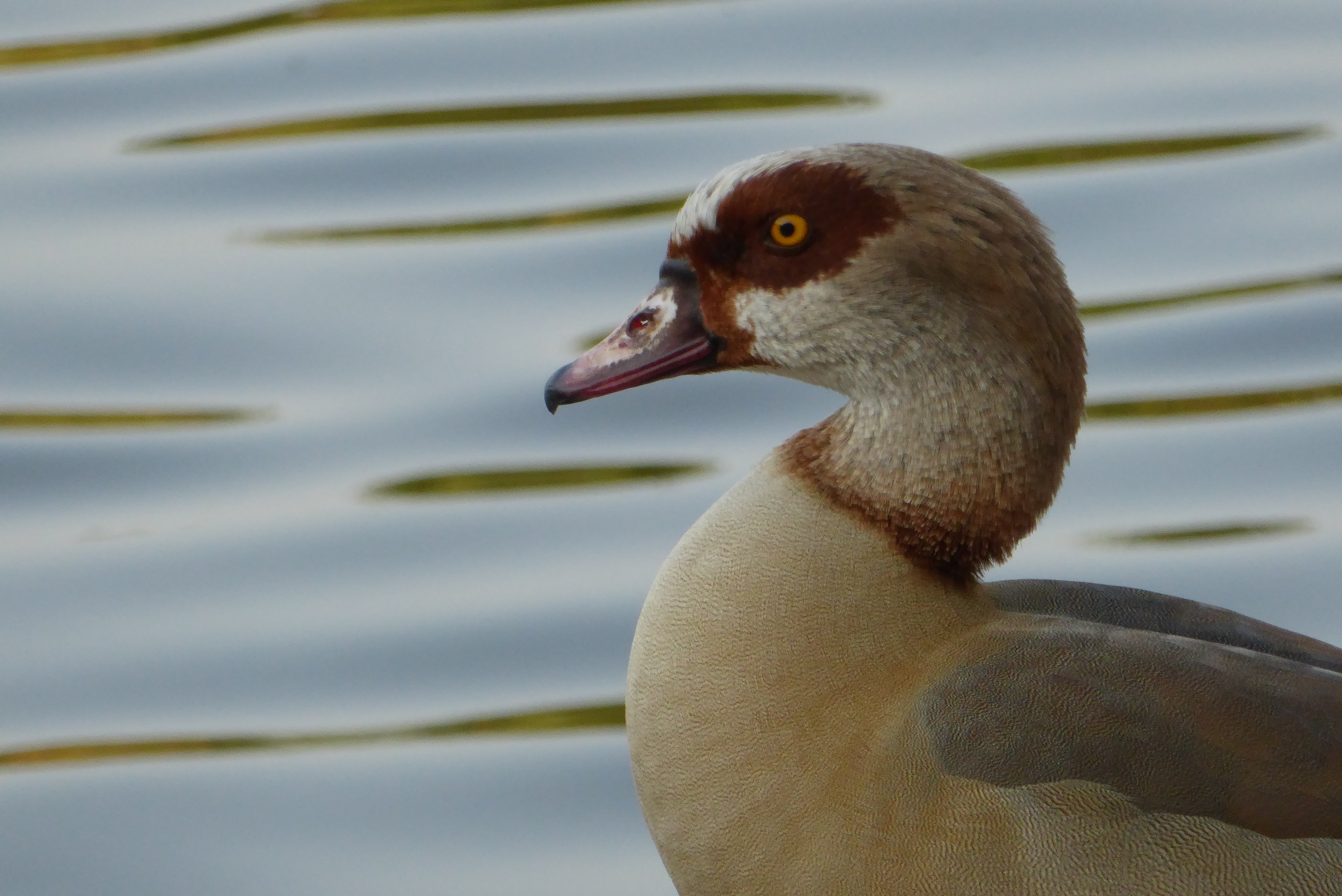 Birds of Ramat Gan, National Park, Ramat Gan